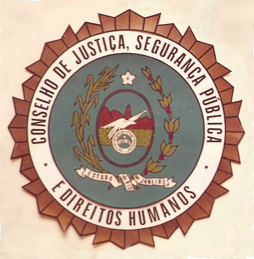 Coat of arms of the Human Rights Council of Rio de Janeiro - Brazil